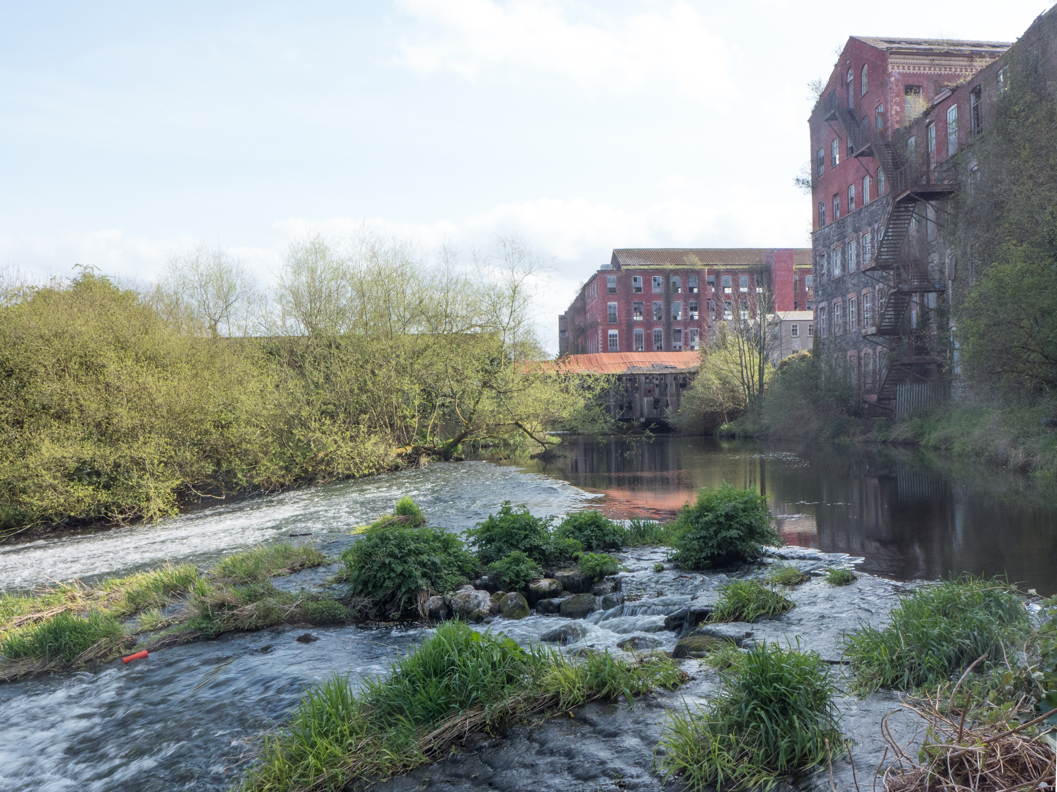 Barbour Mill, Hilden, Co. Antrim, Ireland May 2017 Otter habitat